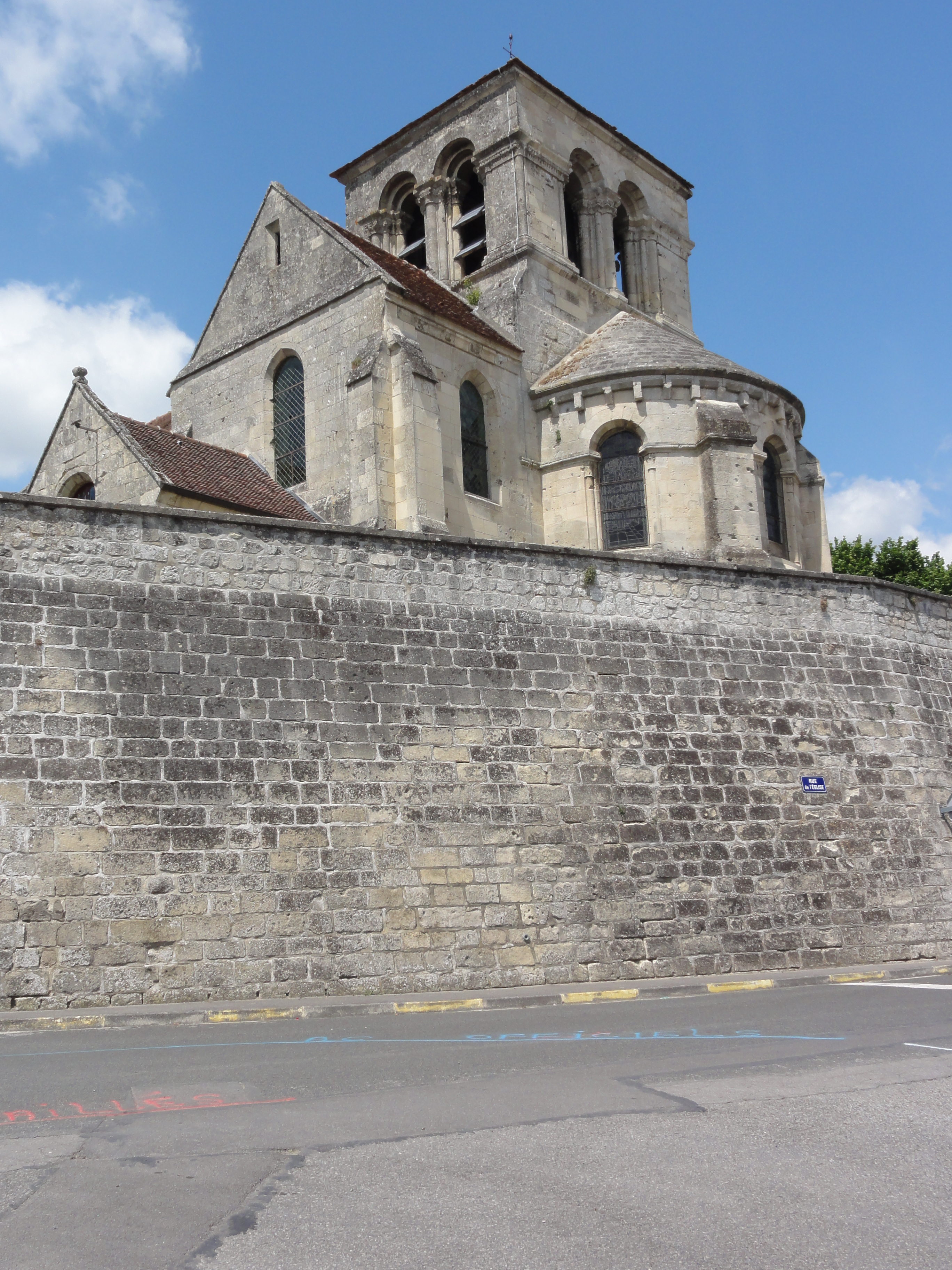 Église Saint-Léger de Pernant (Aisne)